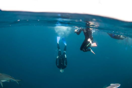 Scuba diving at Aliwal Shoal near Umkomaas